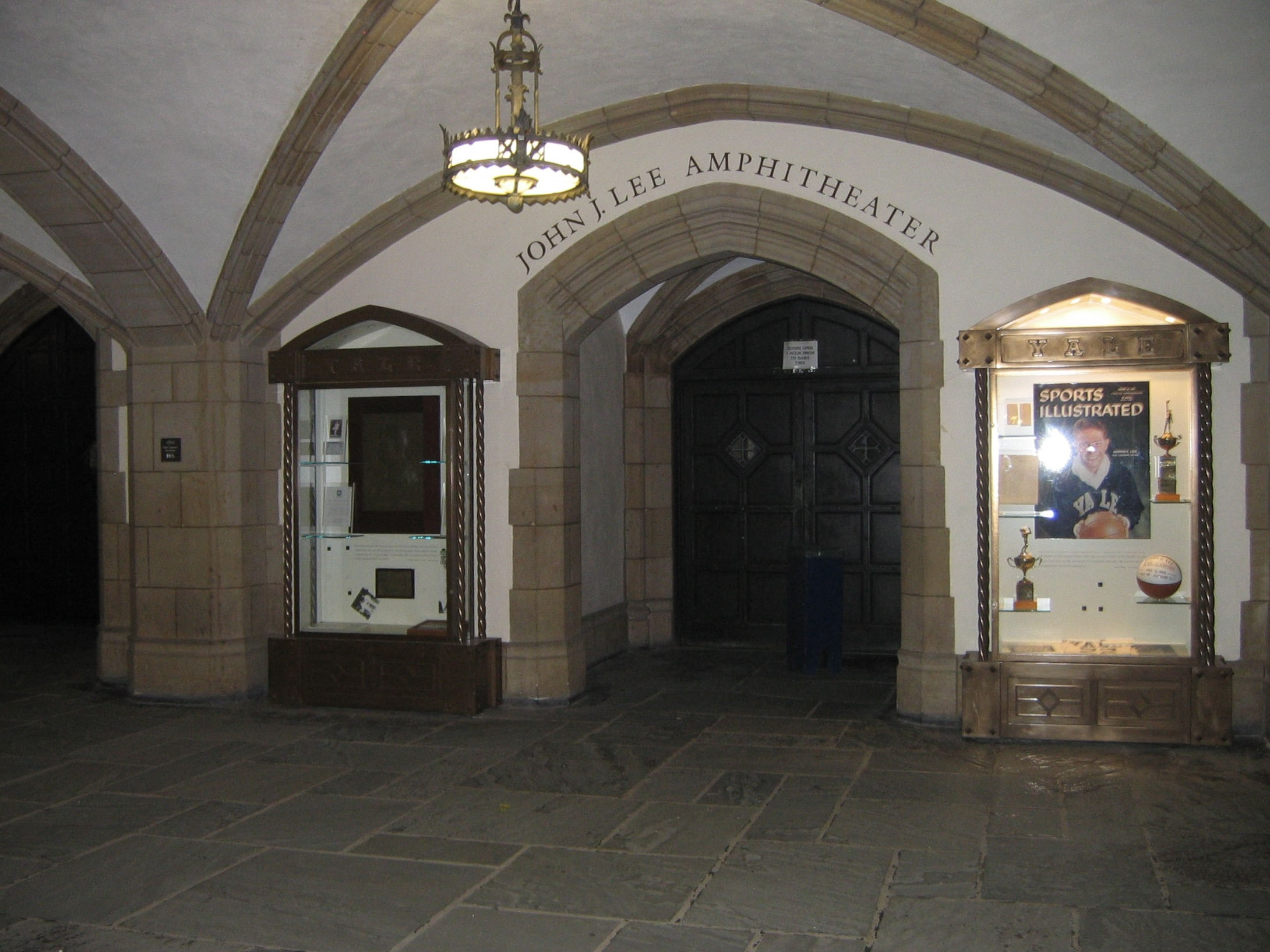 Football & Basketball Facilities Yale Basketball Gym